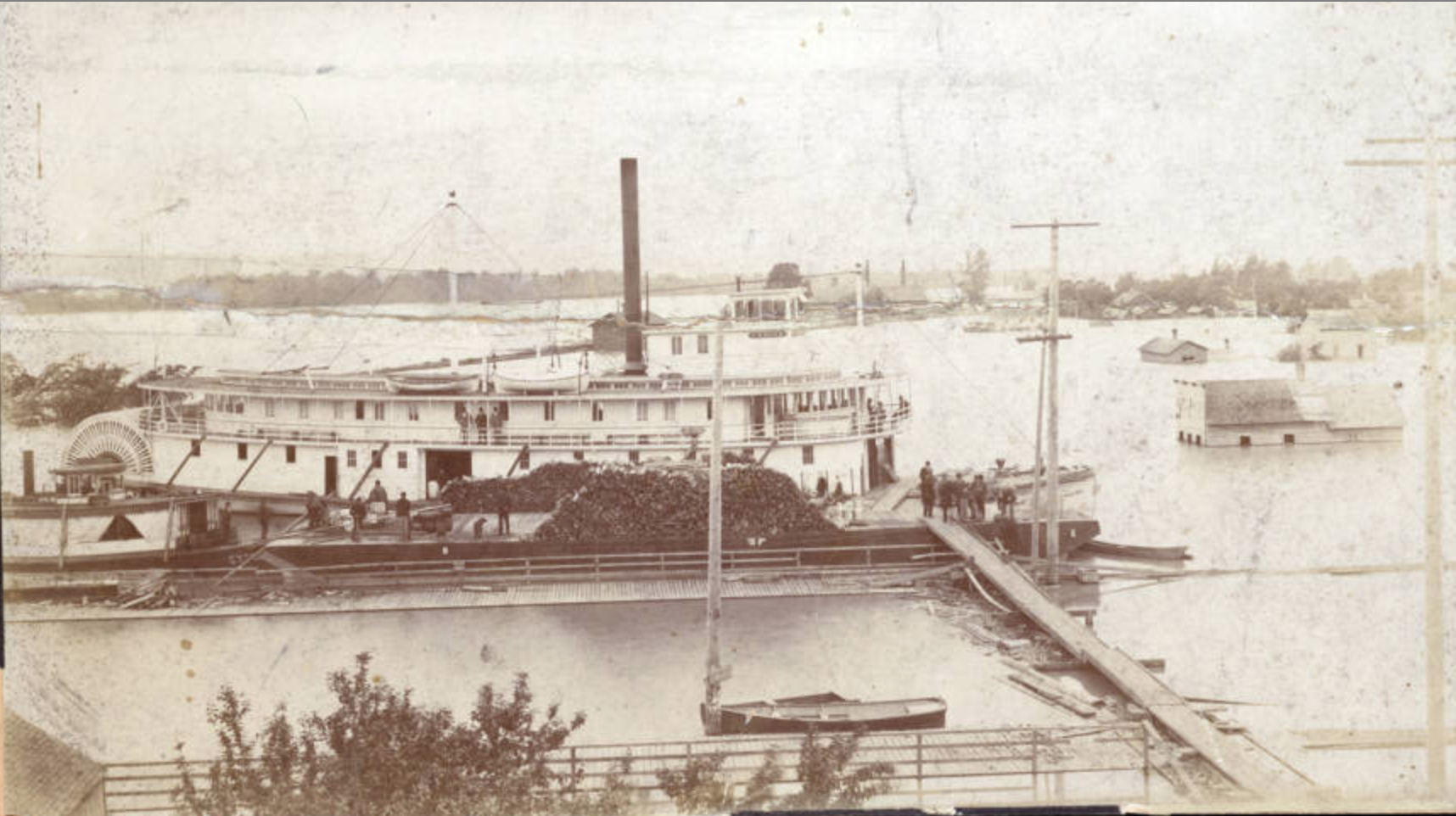 Sternwheeler Undine, shown moored on the Columbia River, apparently somewhere in Clark County, on June 7, 1894, during a flood